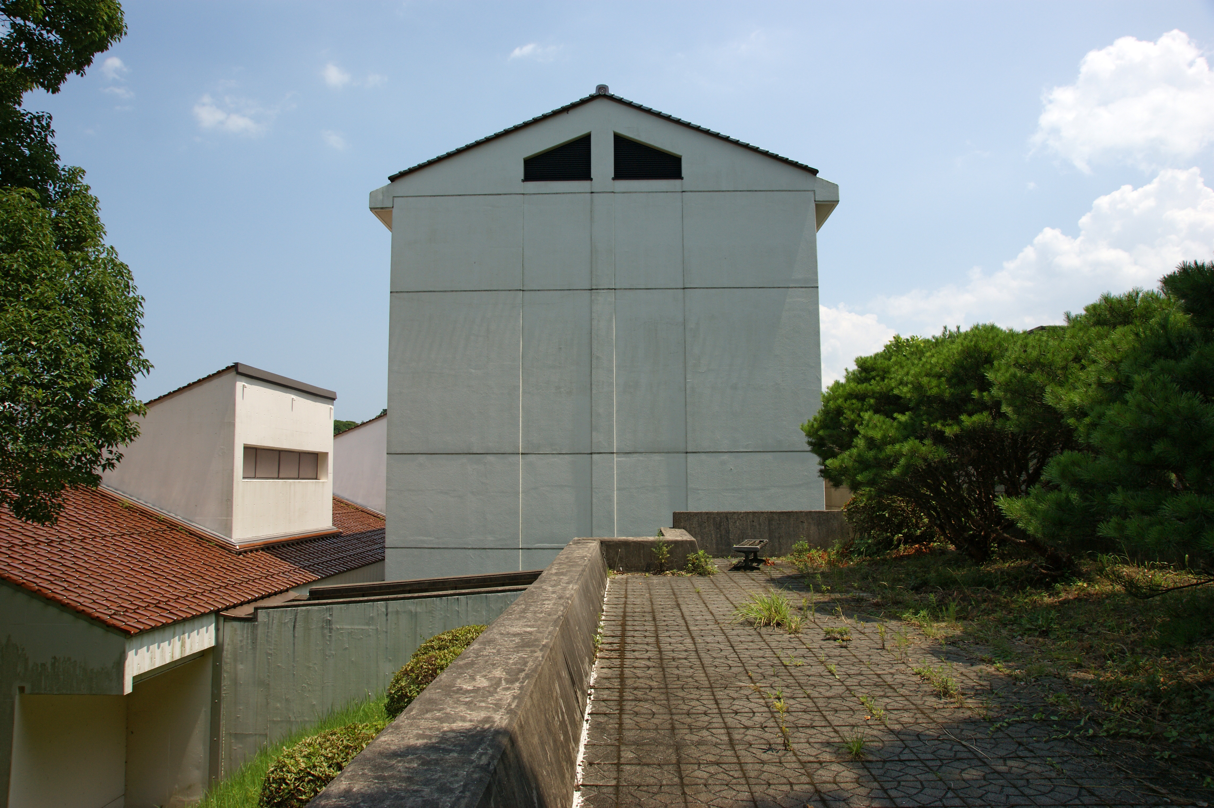 Kurayoshi Museum in Kurayoshi, Tottori prefecture, Japan